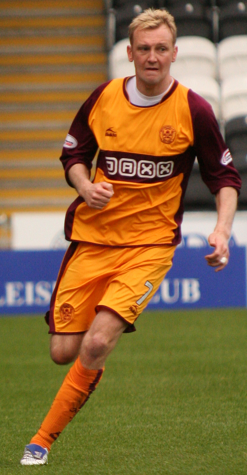 Stephen Hughes playing for Motherwell against St Mirren in 2009.